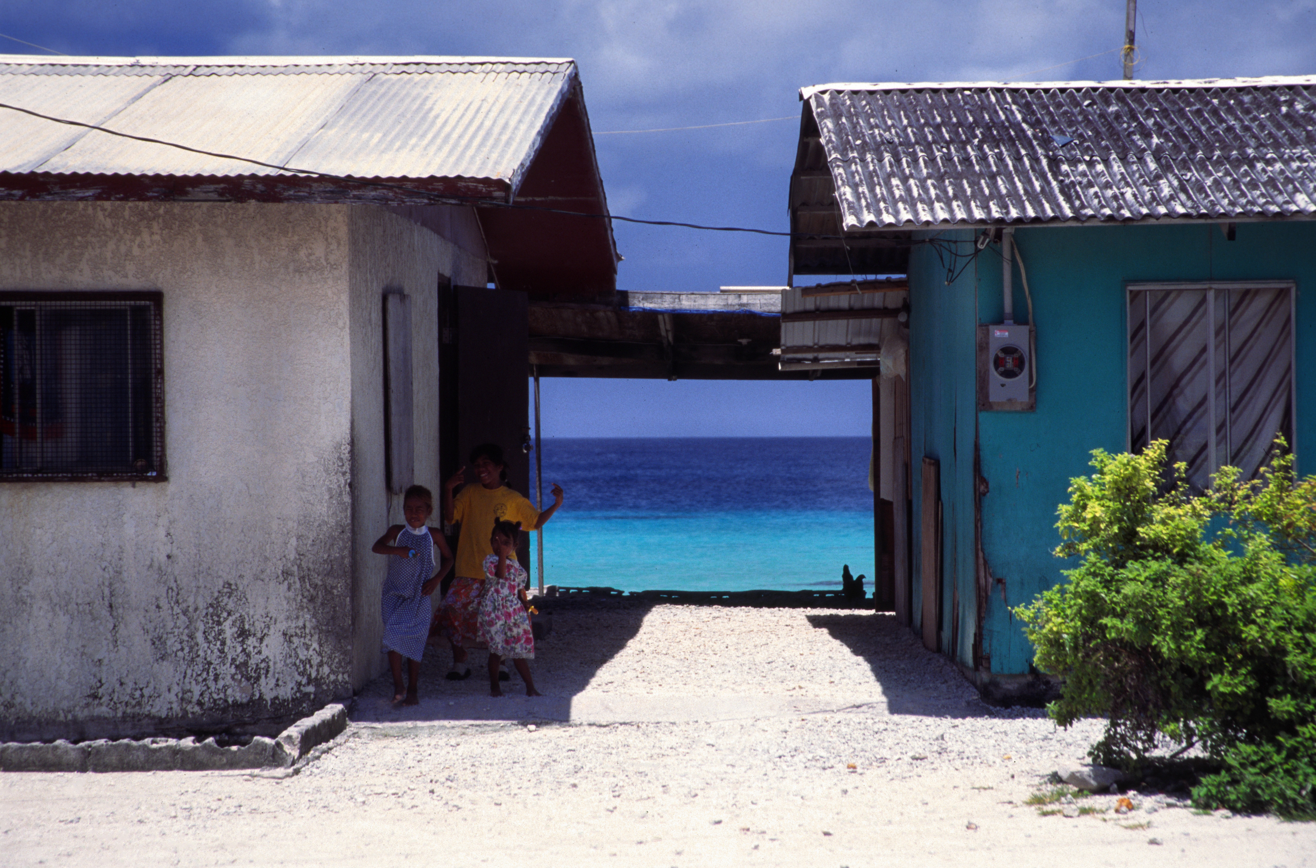 Building in Majuro, Marshall Islands